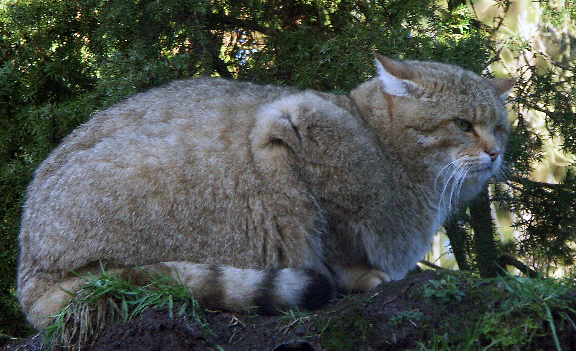 Wildcat in captivity at Skånes djurpark, Sweden